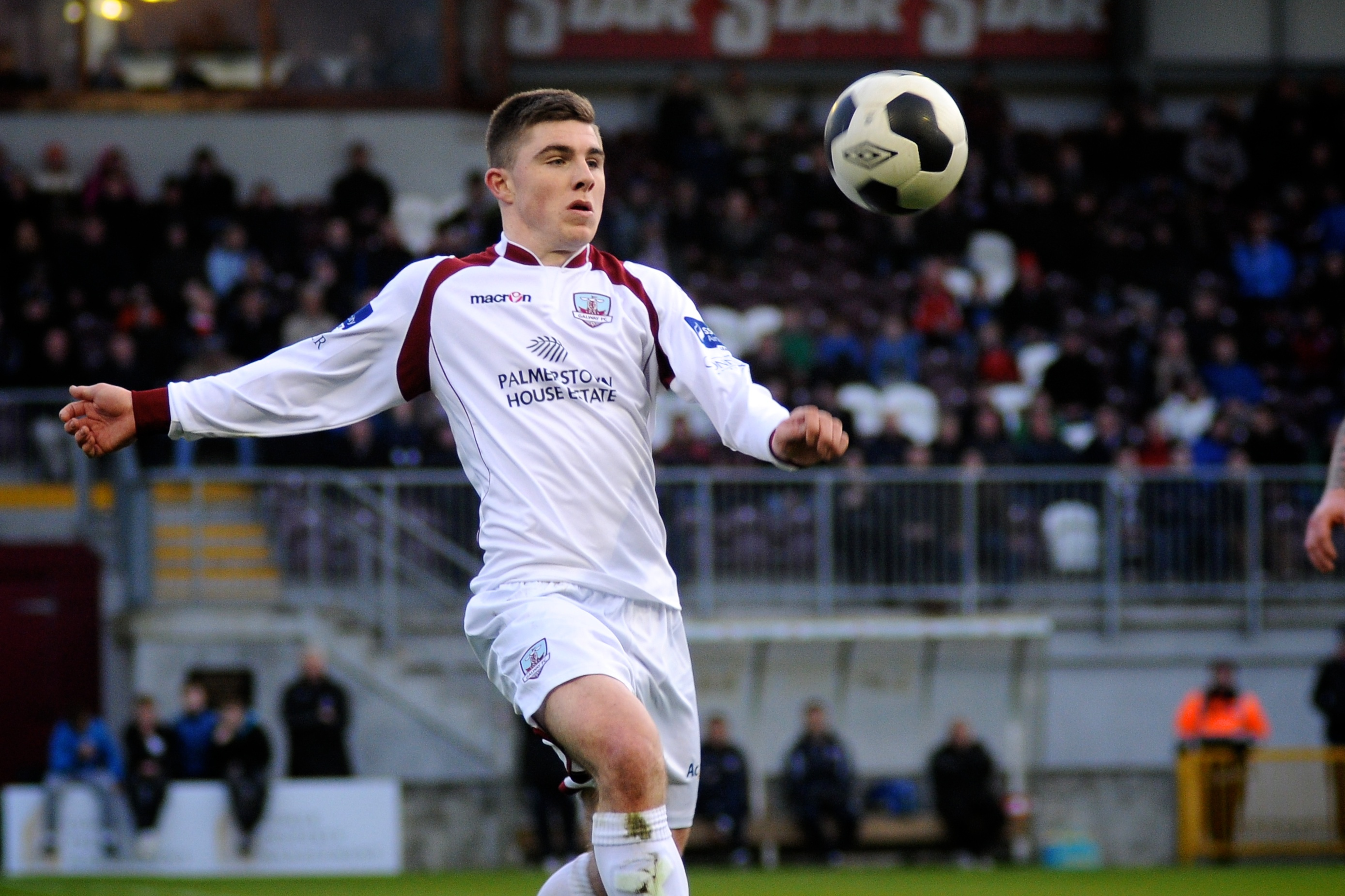 Ryan Manning in action for Galway FC in the 2014 League of Ireland First Division